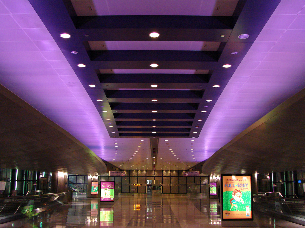 Purple lighting in the mezzanine level of Courthouse station in May 2008